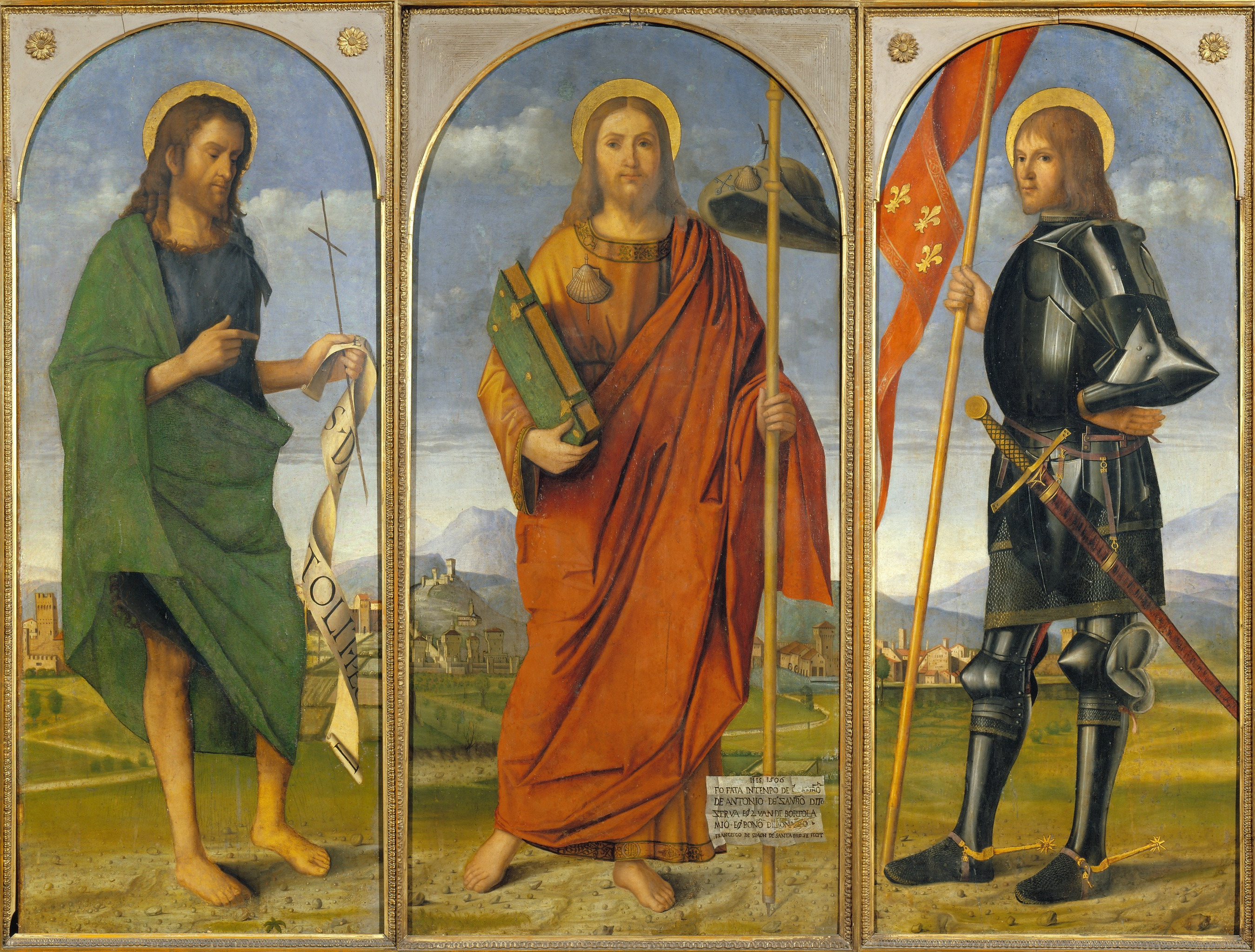 Francesco di Simone da Santacroce. Trittico di Leprena. 1506. Accademia Carrara, Bergamo.